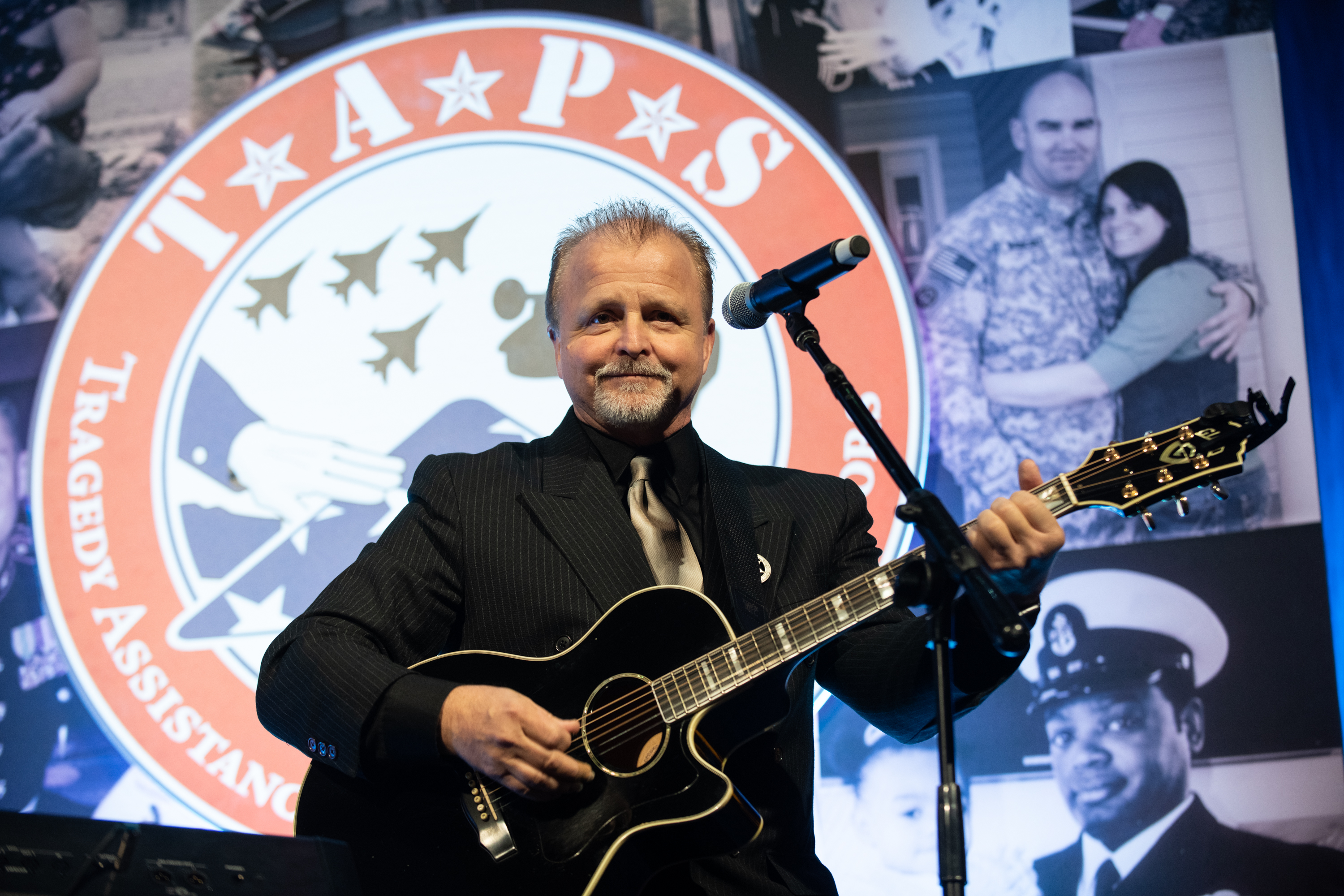 Frank Myers, country music songwriter and musician, performs during the 2019 Tragedy Assistance Program for Survivors (TAPS) Honor Guard Gala at the National Building Museum in Washington D.C., March 6, 2019. TAPS is a not-for-profit organization that has assisted over 70,000 surviving family members grieving the loss of an armed forces service-member. (DoD Photo by U.S. Army Sgt. James K. McCann)